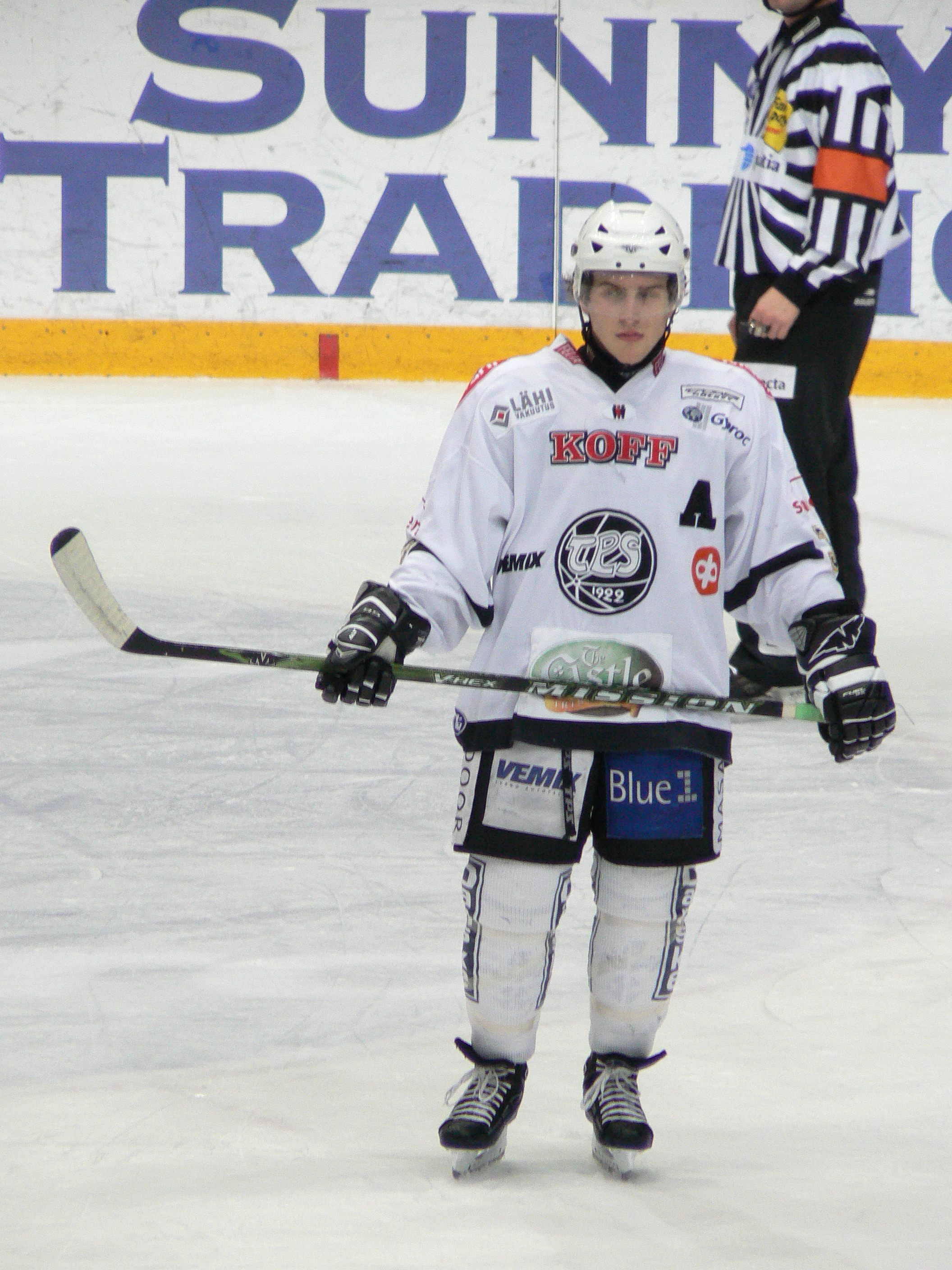 American ice hockey defenseman Lee Sweatt playing for TPS Turku in January 2008